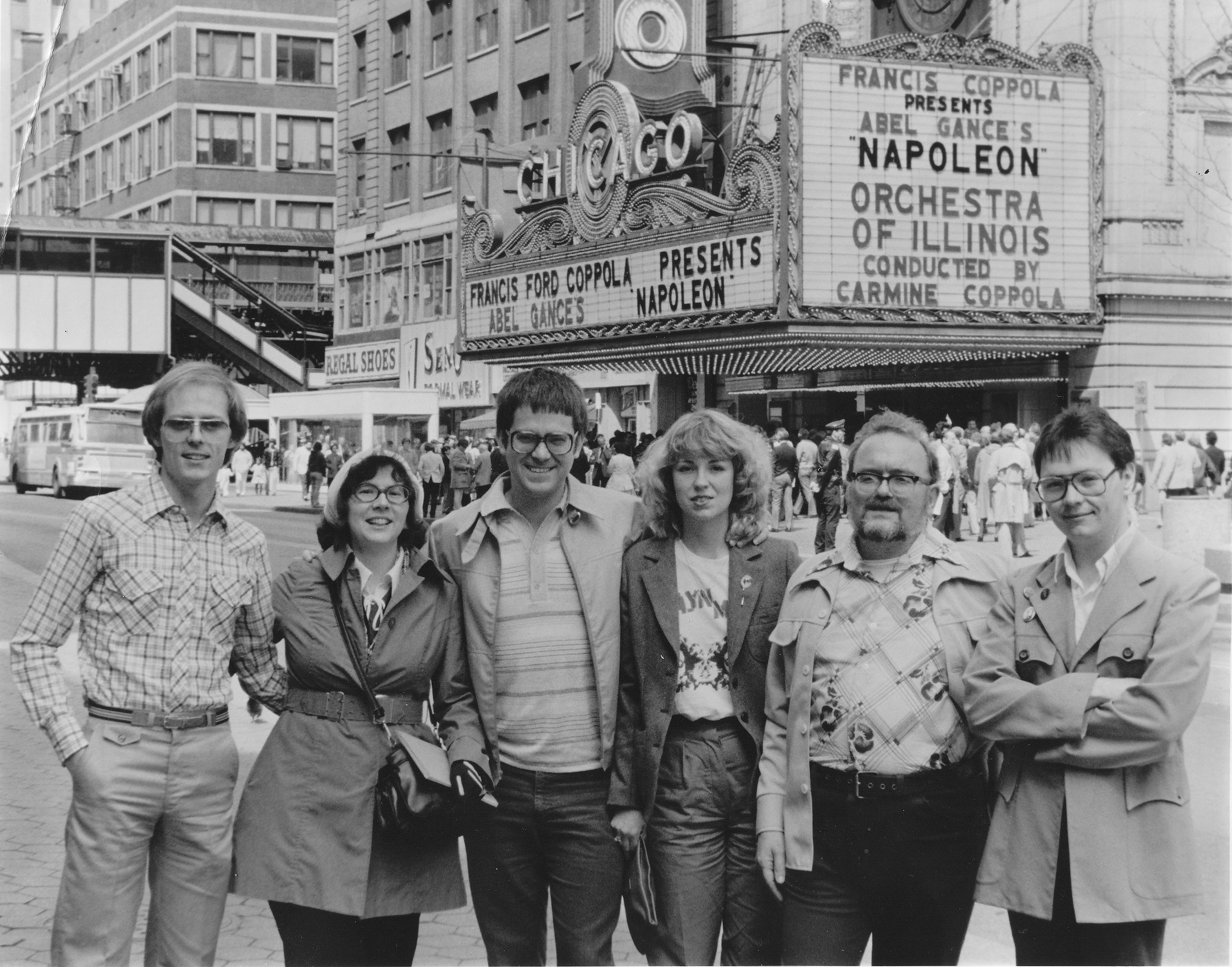 A group of moviegoers in front of the Chicago Theatre marquee in 1981 at the showing of Abel Gance's Napoleon, as produced by Francis Ford Coppola, with music composed and conducted by Carmine Coppola.